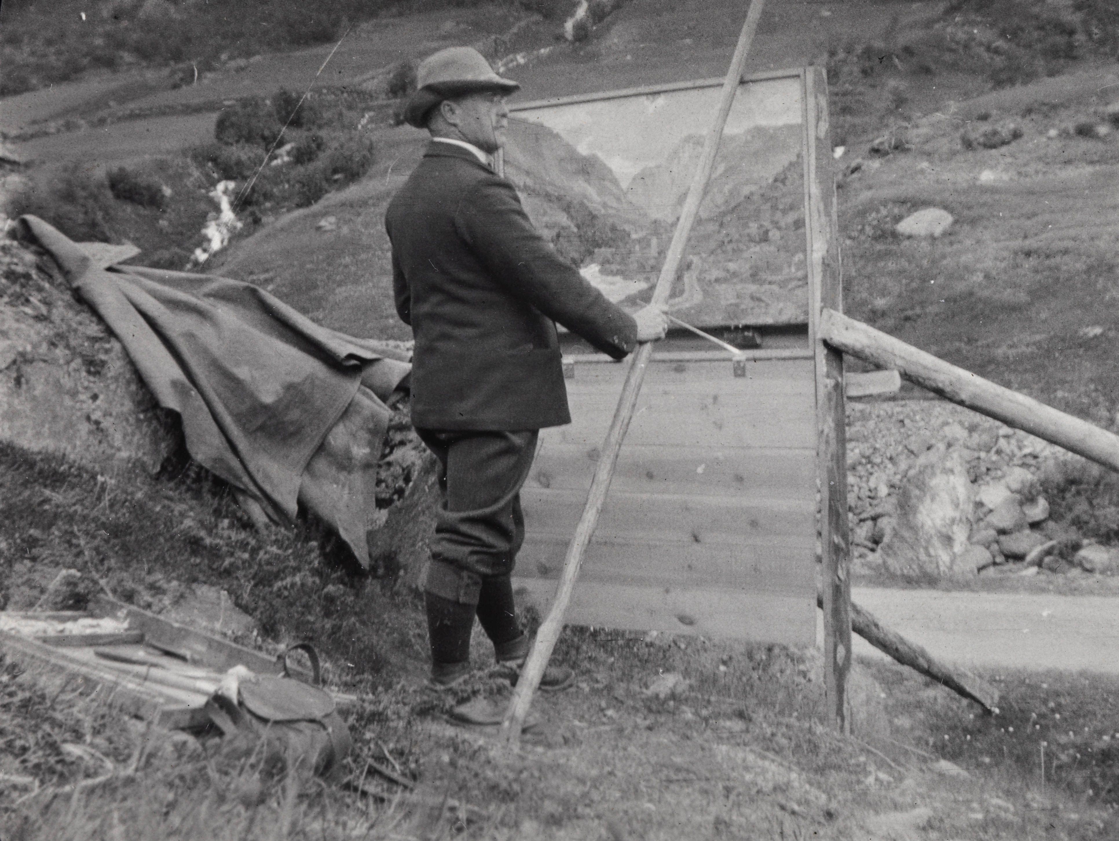 Beskrivelse / Description: Gerhard Munthe var maler. Dato / Date: sommeren 1905 Sted / Place: Oppland, Lom, Bøverdalen, Røisheim Fotograf / Photographer: ukjent / unknown Digital kopi av original / Digital copy of original: s/h papirpositiv Eier / Owner Institution: Nasjonalbiblioteket / National Library of Norway Lenke / Link: Bildesignatur / Image Number: blds_03853